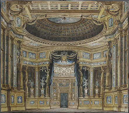 The scenery sketch. A palace interior in a Baroque taste. 1792.label QS:Lru,"Эскиз декорации. Дворцовый интерьер в стиле барокко. 1792 г." label QS:Len,"The scenery sketch. A palace interior in a Baroque taste. 1792."